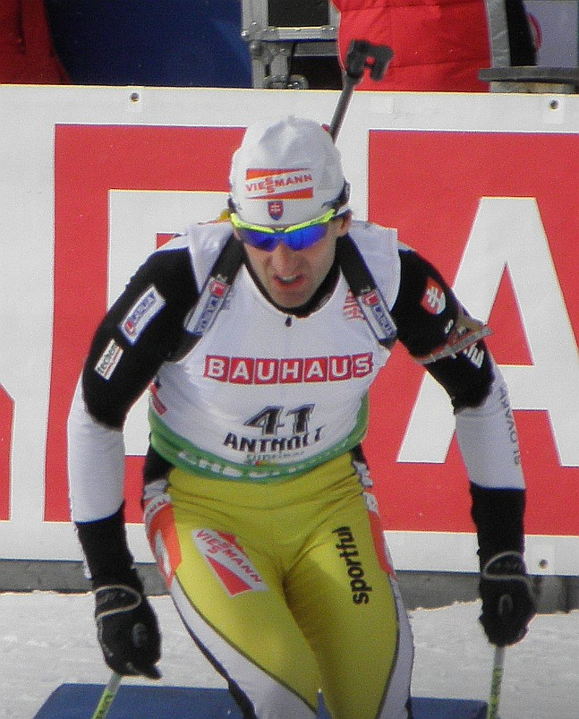 Pavol Hurajt, 21-01-2010